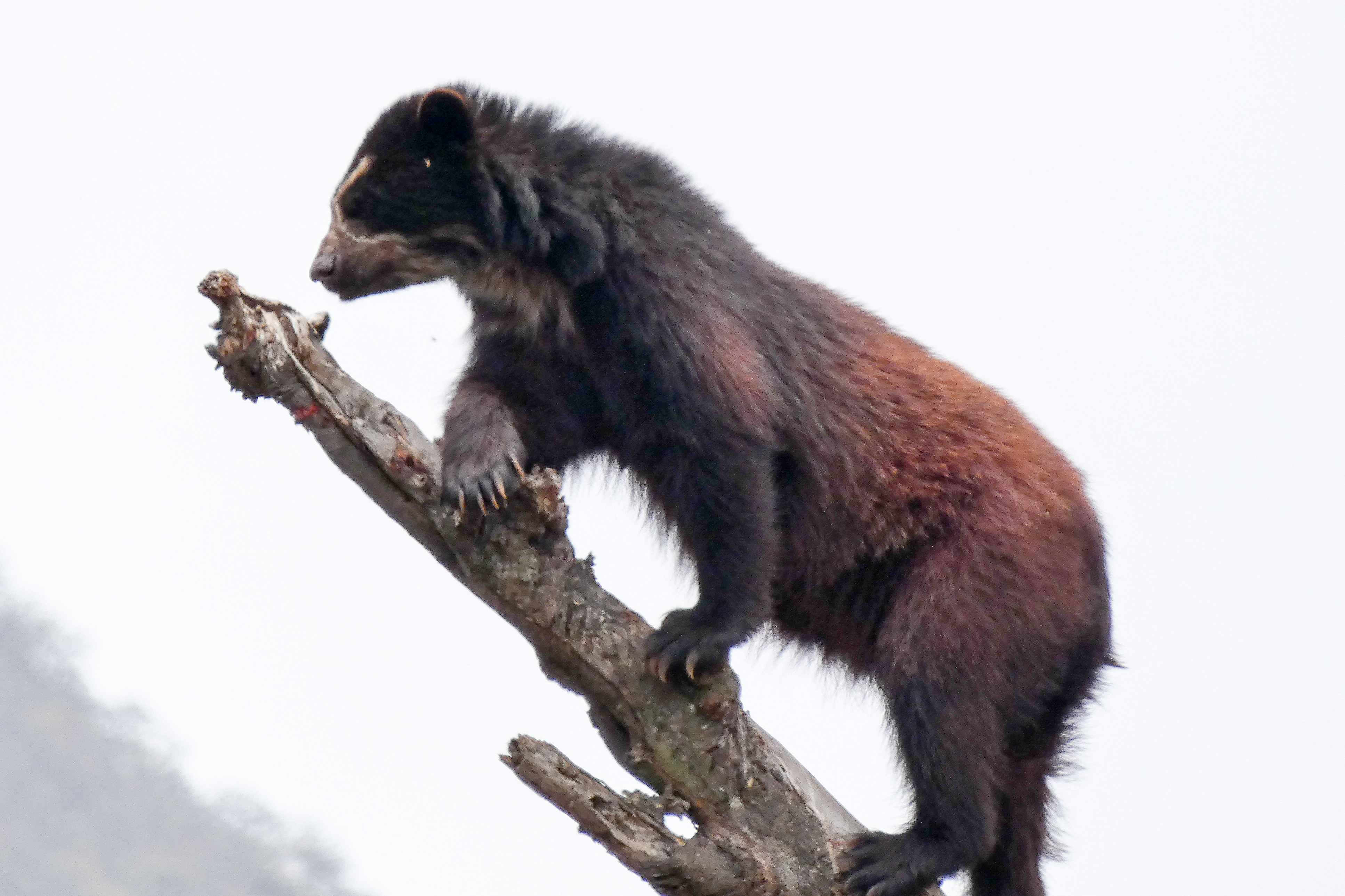 Tremarctos ornatus in the Chaparri Reserve - Chiclayo - Lambayeque Region - Peru